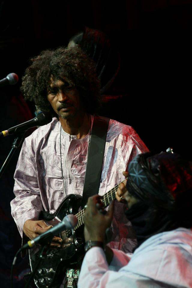 Ibrahim Ag ALhabib of Tinariwen